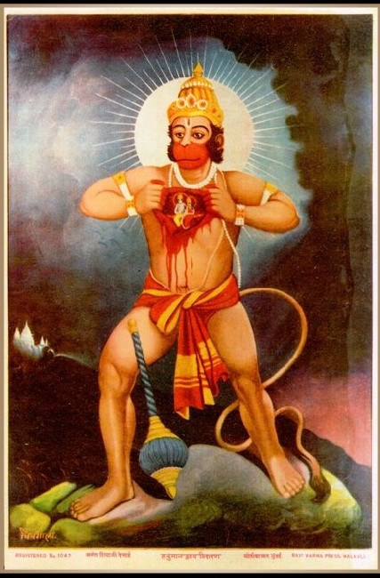 From Baroda Art Museum